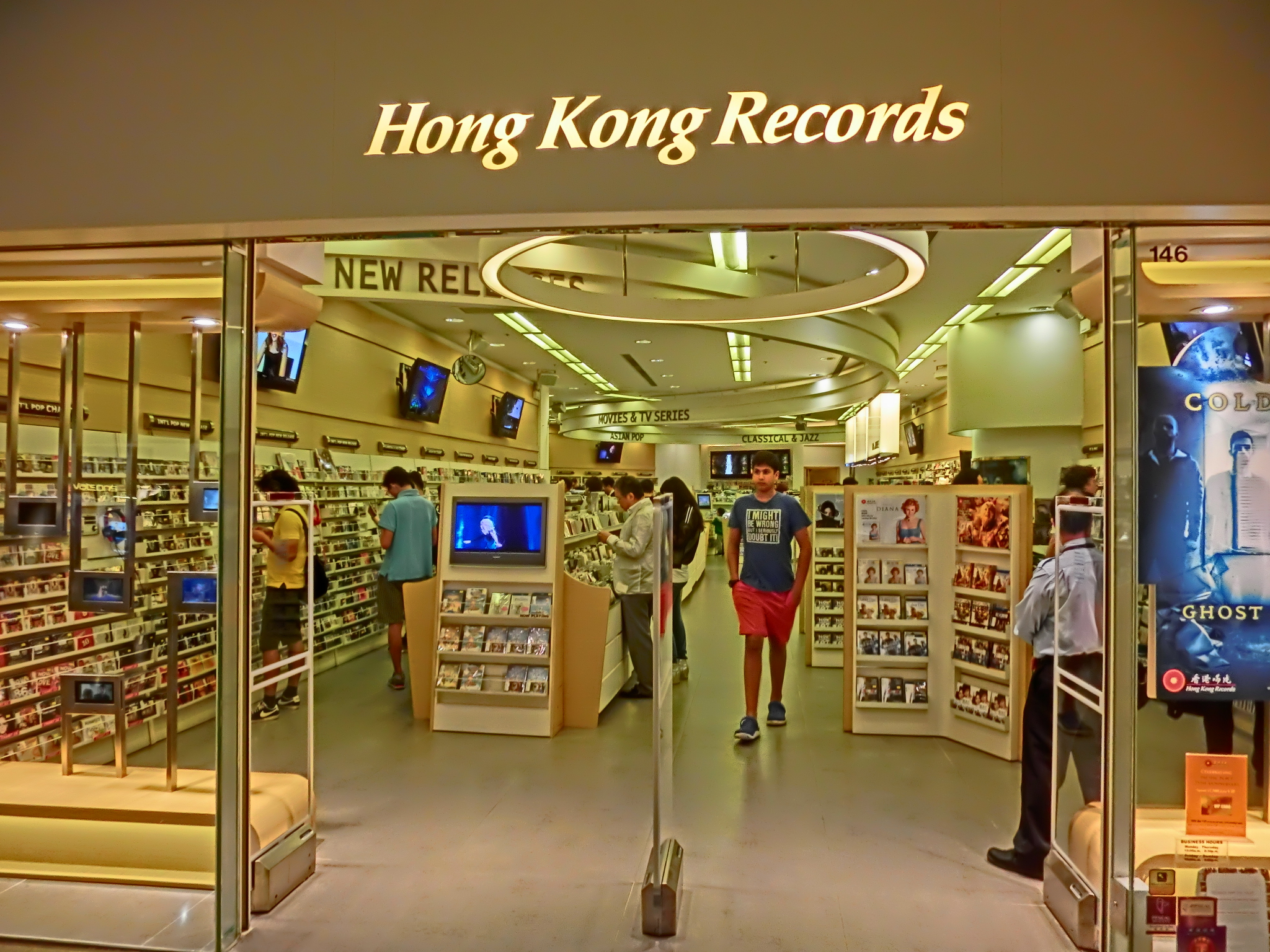 Shops of 金鐘 太古廣場, Pacific Place, Admiralty, Hong Kong